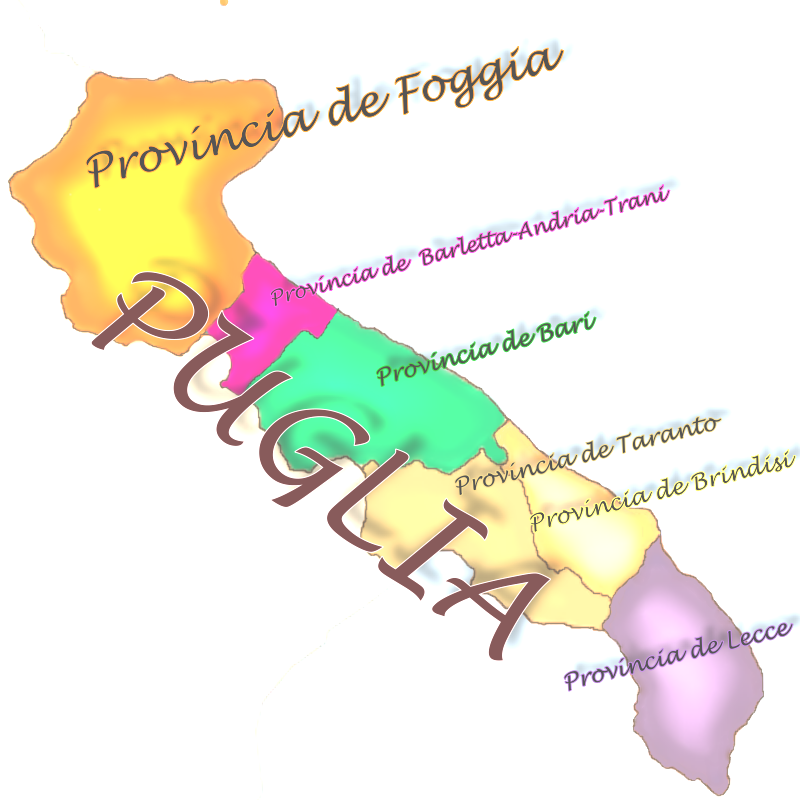 Puglia